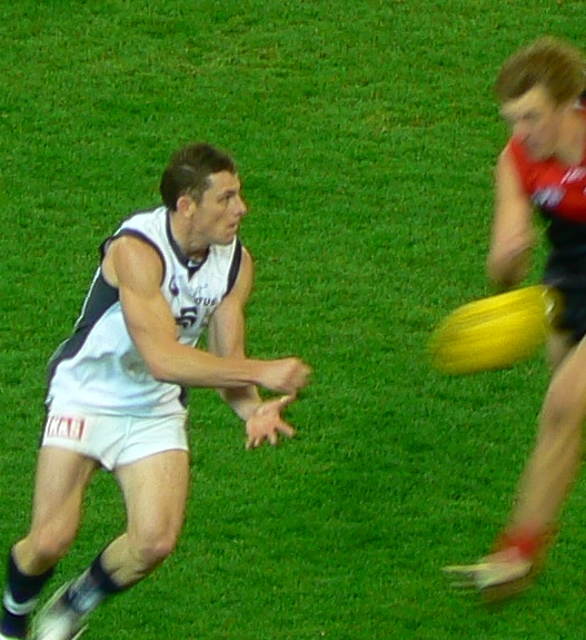 Carlton's Heath Scotland fires off a handpass.